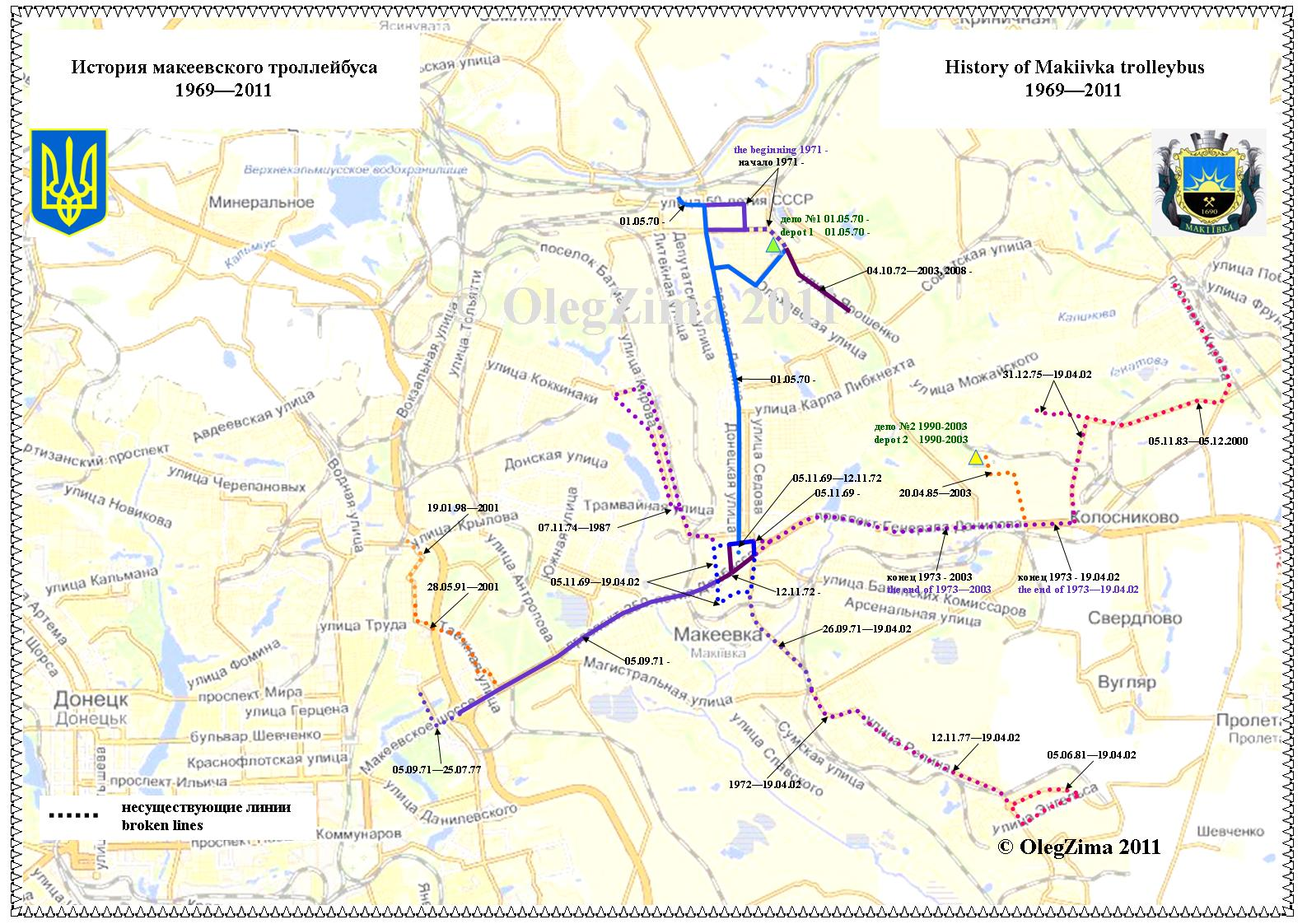 map of Template:Trolleybus history of Makeevka (Makiivka) (Ukraine)